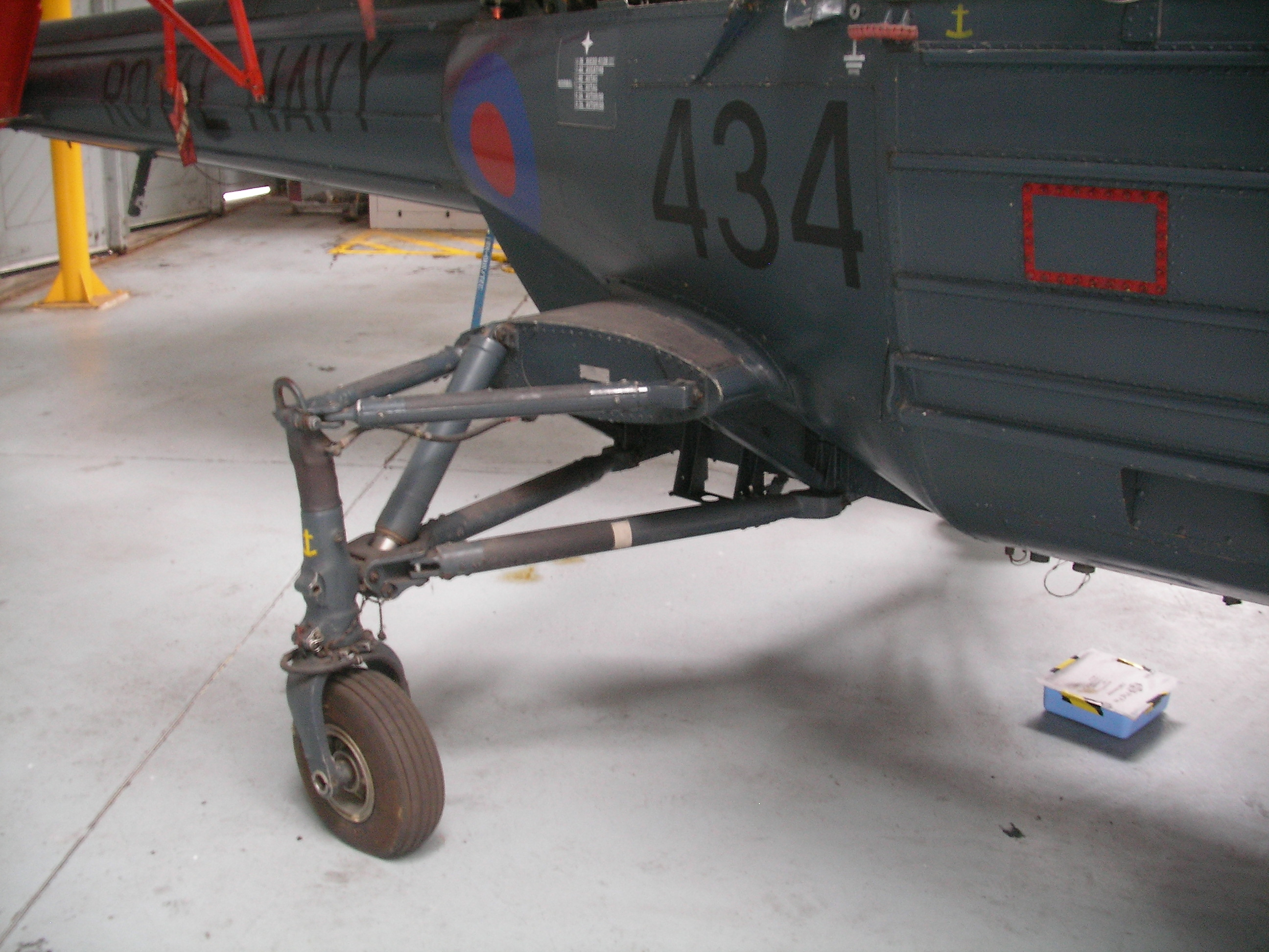 Rear landing gear of Wasp helicopter. Nerdy, but unusual and interesting to aircraft fans while rarely properly shown